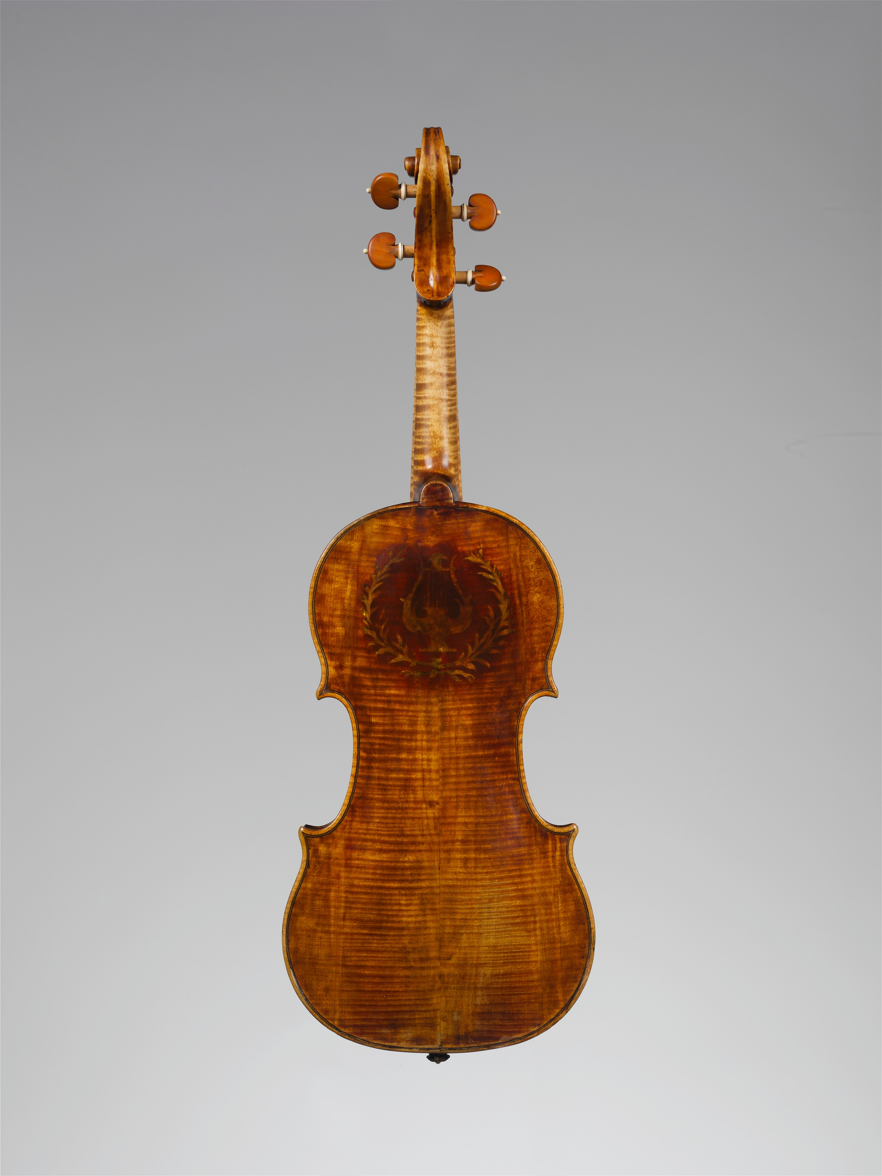 Italian (Cremona); Violin; Chordophone-Lute-bowed-unfretted